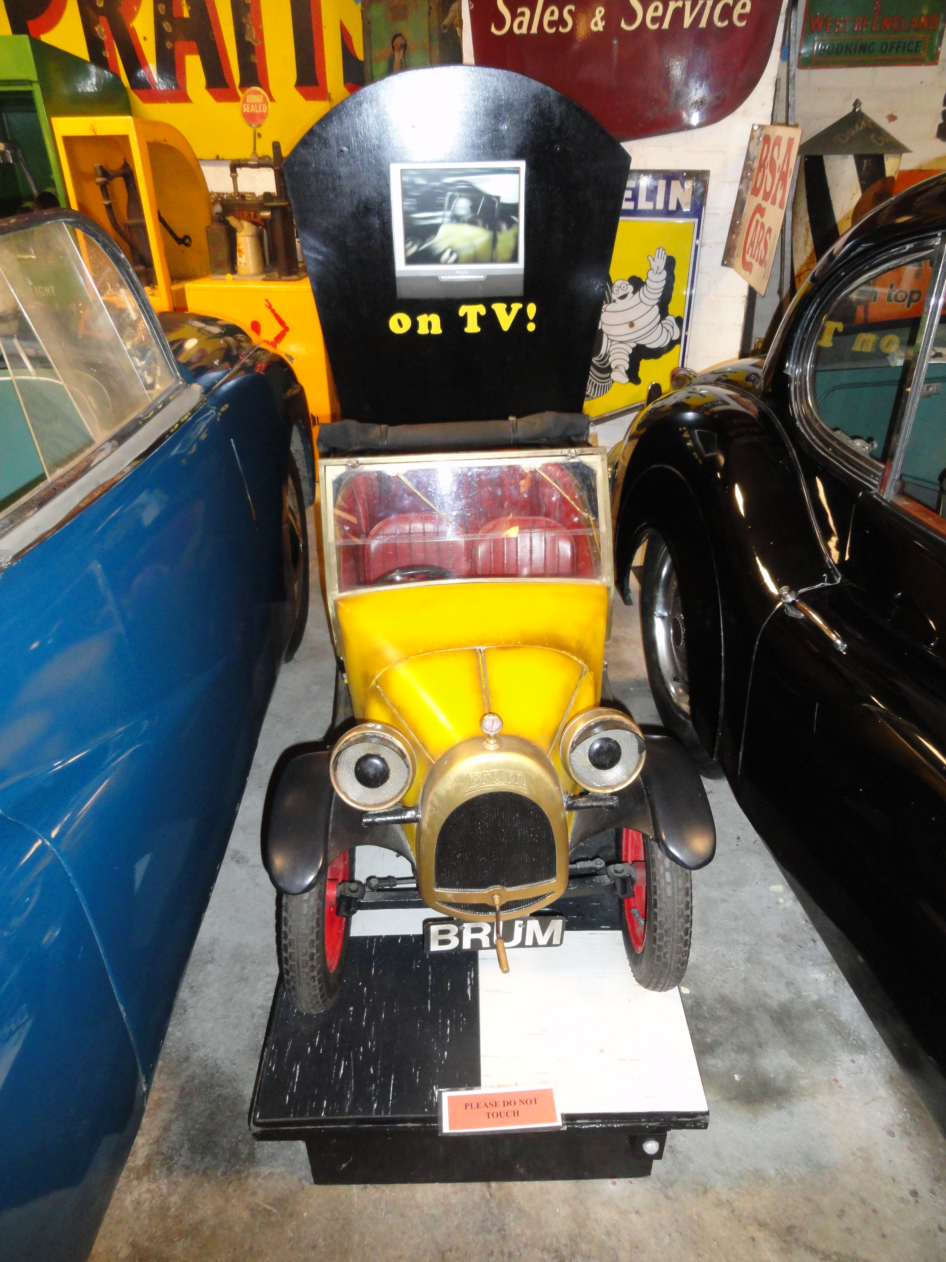 A picture of Brum at the Cotswold Motor Museum